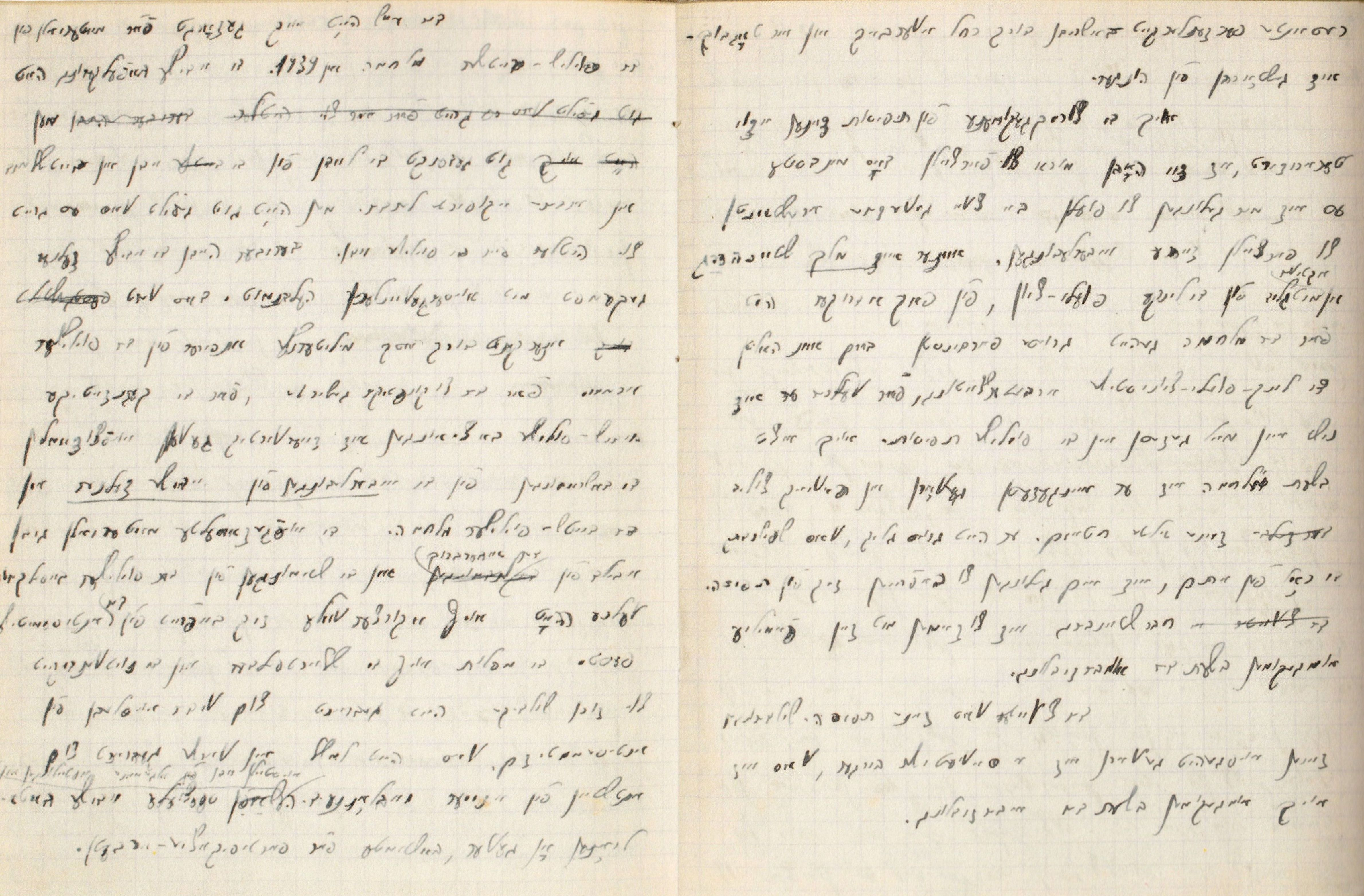 A piece of diary (chronicle) of Emanuel Ringelblum in the Warsaw Ghetto